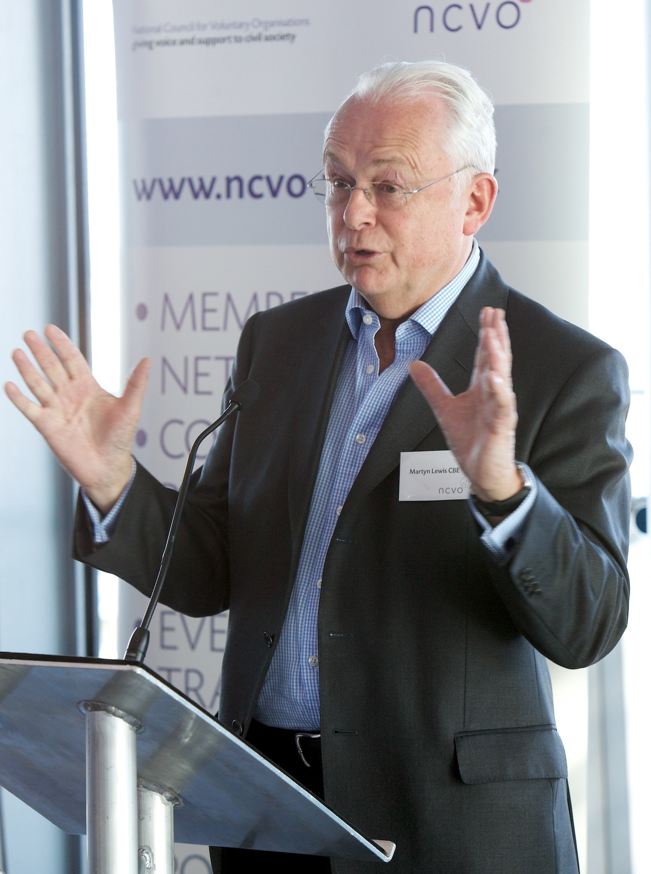 Martyn Lewis at NCVO Summer Reception